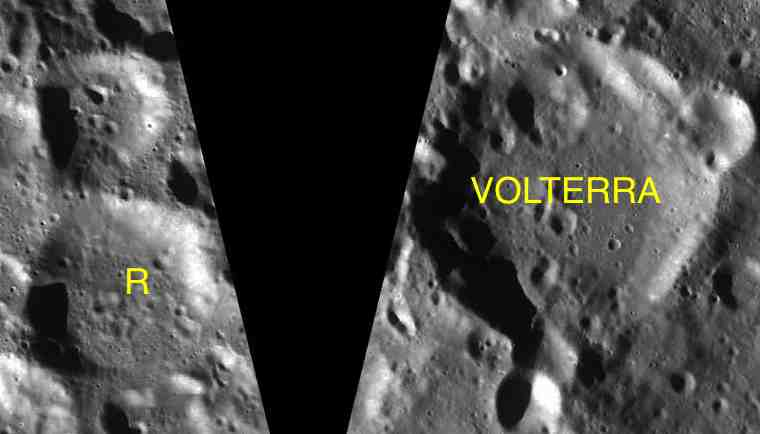 Parts of the charts LAC-16, LAC-17 used for the presentation